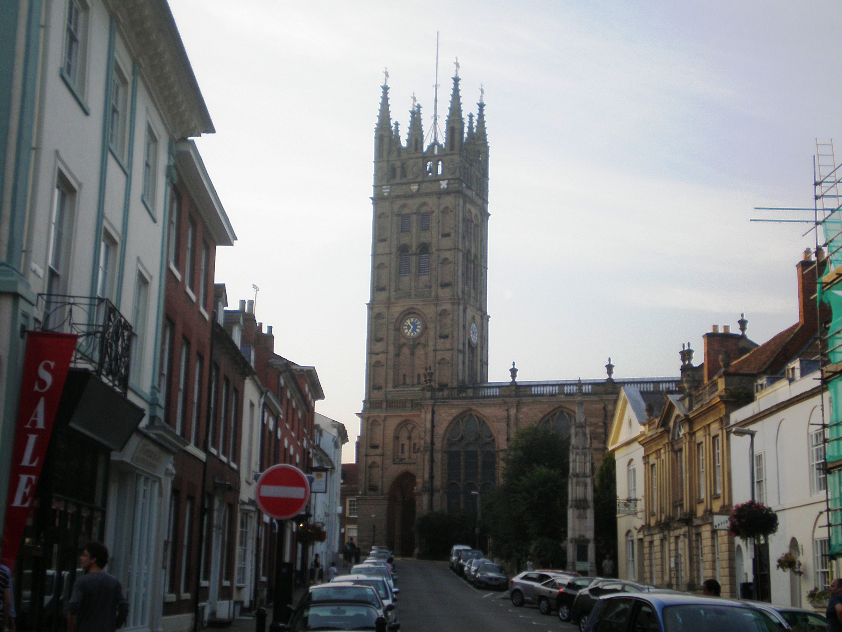 St Mary's church, Warwick